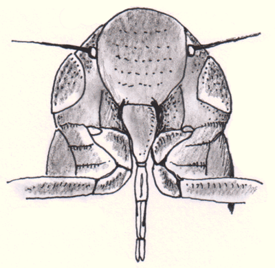 Sucing mouthparts. Froghopper. Homoptera. A drawing by Halvard from Norway.